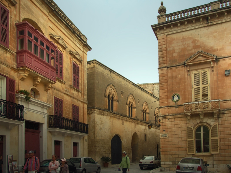 Mdina, Malta - Pallazo Santa Sofia in the center